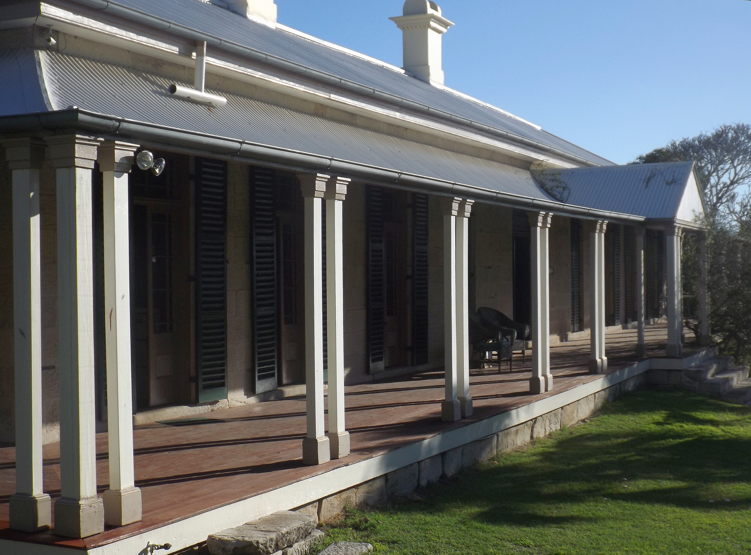 Photo of the north facing verandah of Claremont at Ipswich, Queensland, Australia.